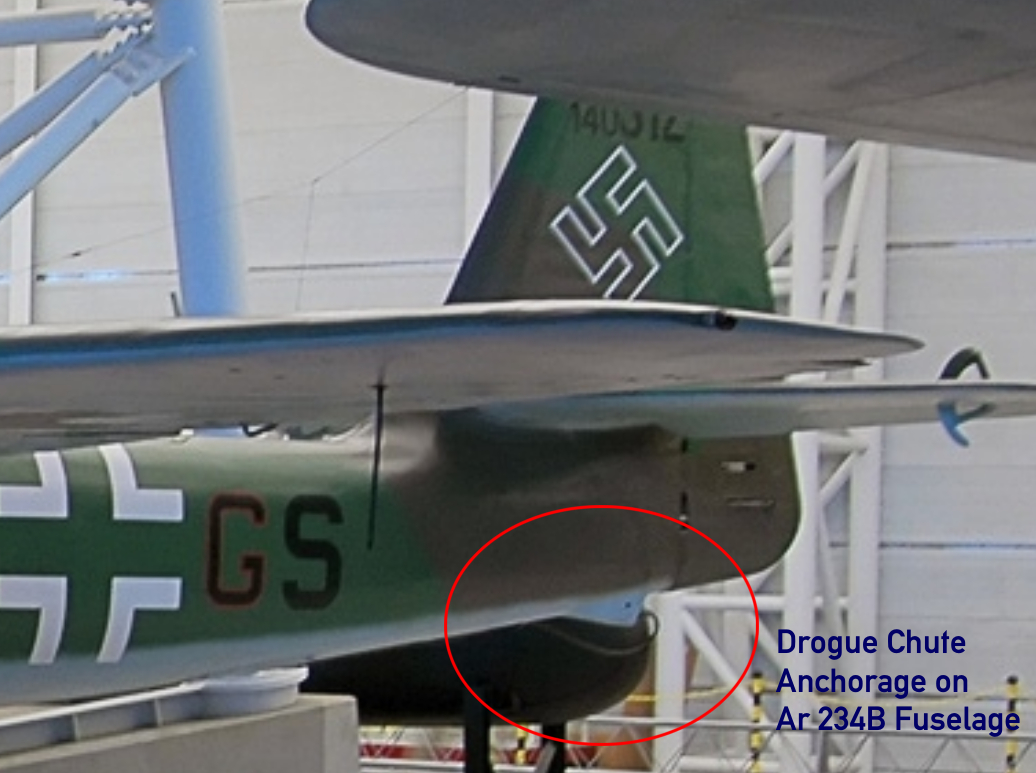 "Closeup of NASM Ar 234B showing drogue chute anchorage location" - The Arado Ar 234B Blitz turbojet recon-bomber is believed to be the very first production military aircraft to have a standard provision for a drogue chute to slow it after landing - the photo details where its provision is on the Ar 234B's fuselage.